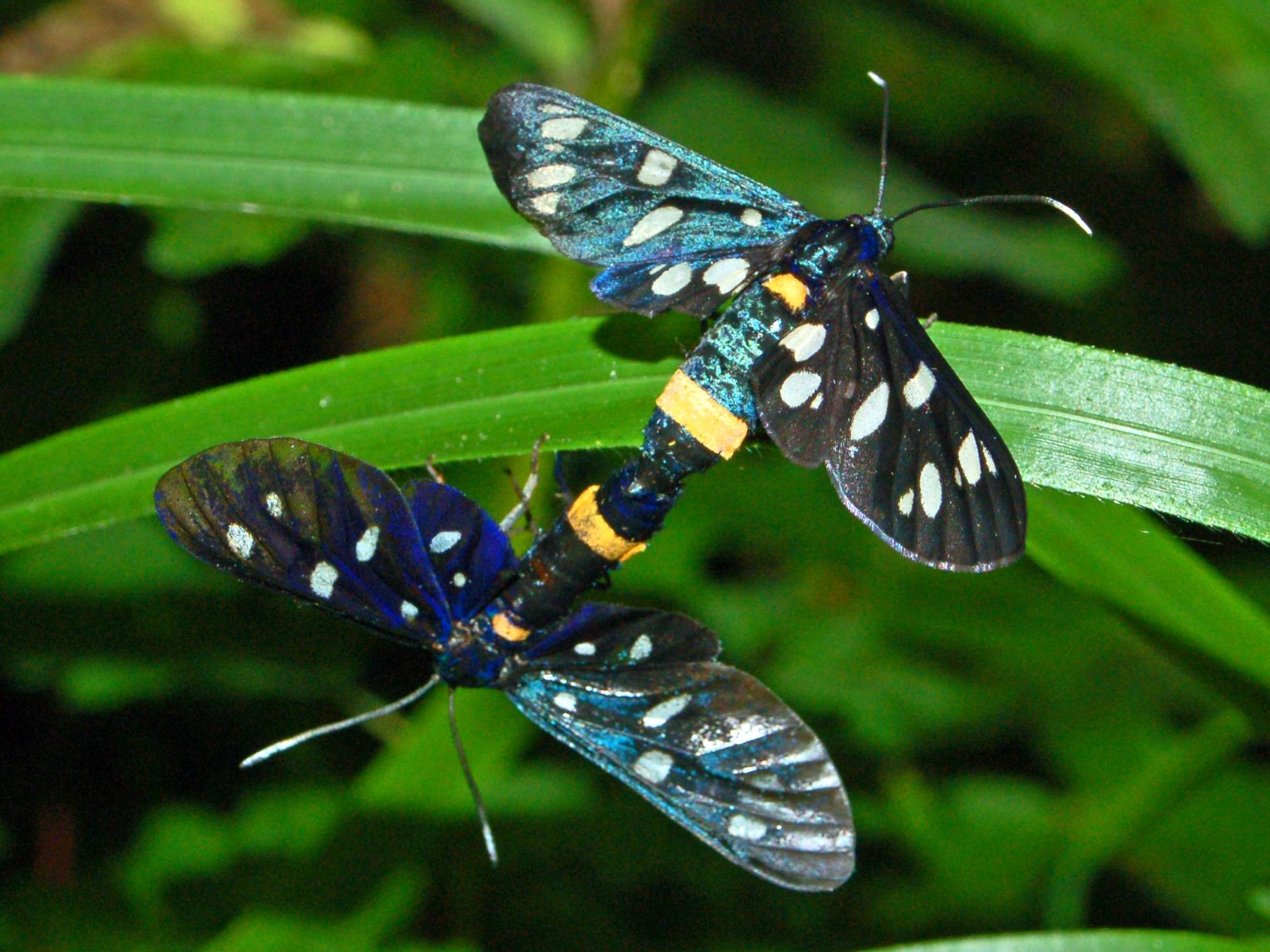 Amata phegea, mating. Vla Noci, Genova, Italy